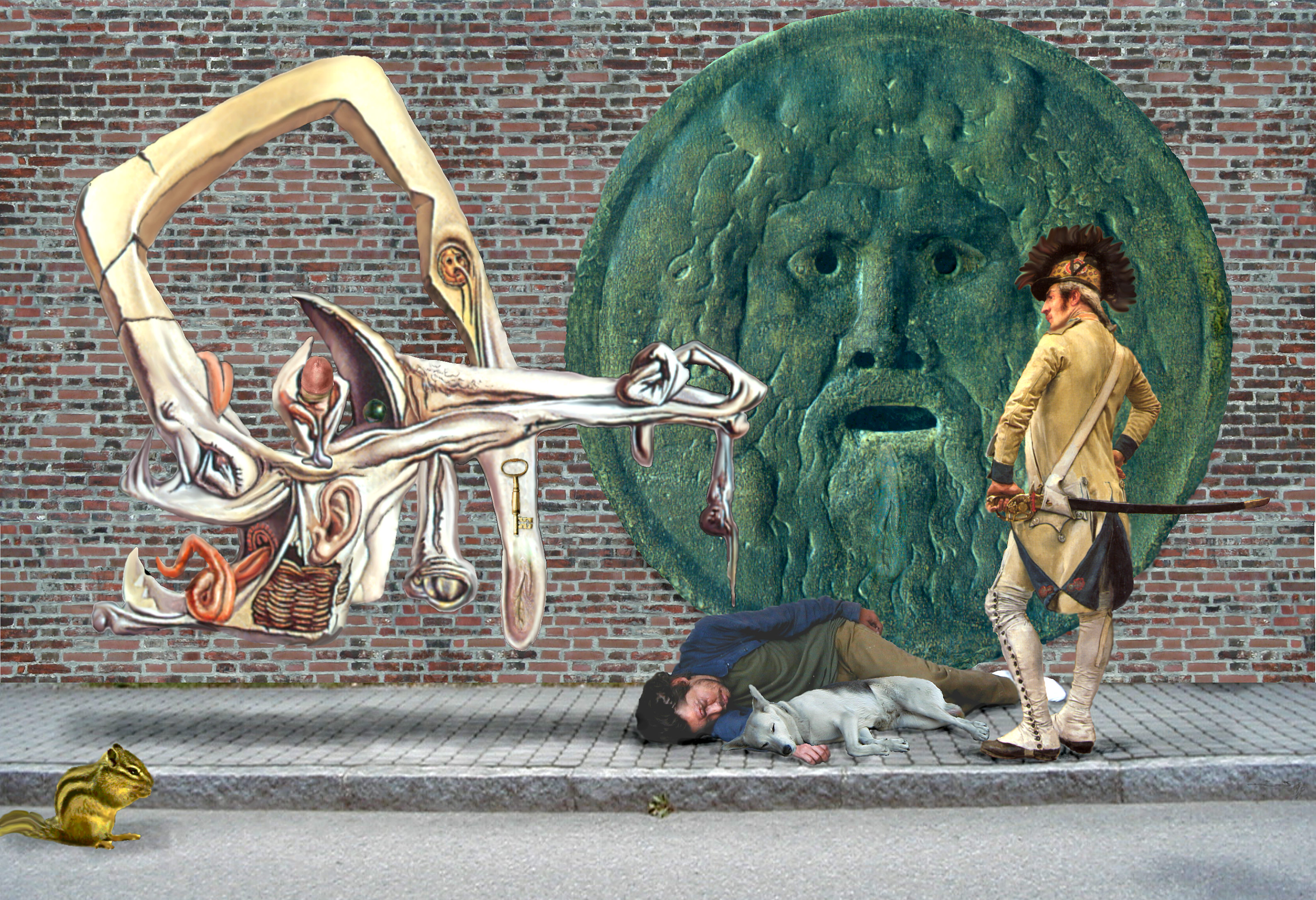 Bitmap graphics